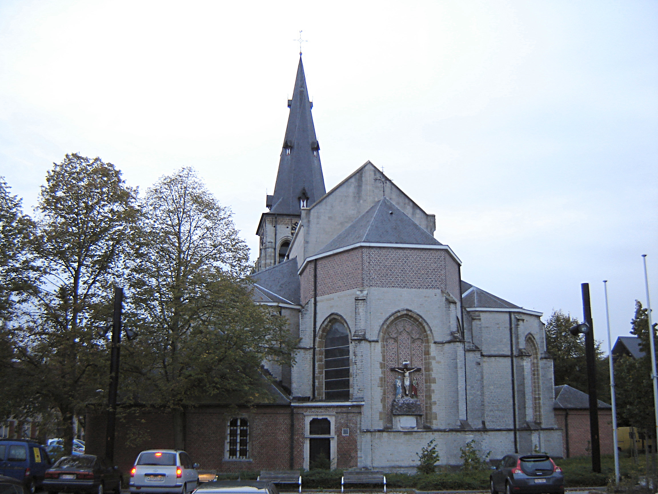 Church of Our Lady and Saints Peter and Paul in Waasmunster. Waasmunster, East Flanders, Belgium